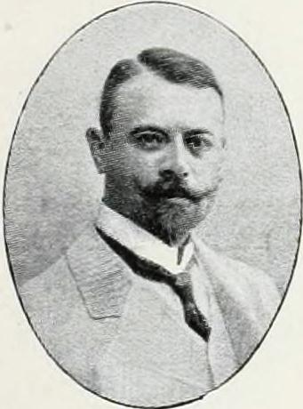 Wilhelm Westrup (1862-1939), Swedish industrialist